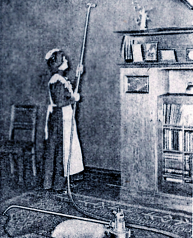 "The Dedusting Pump", later known as vacuum cleaner.